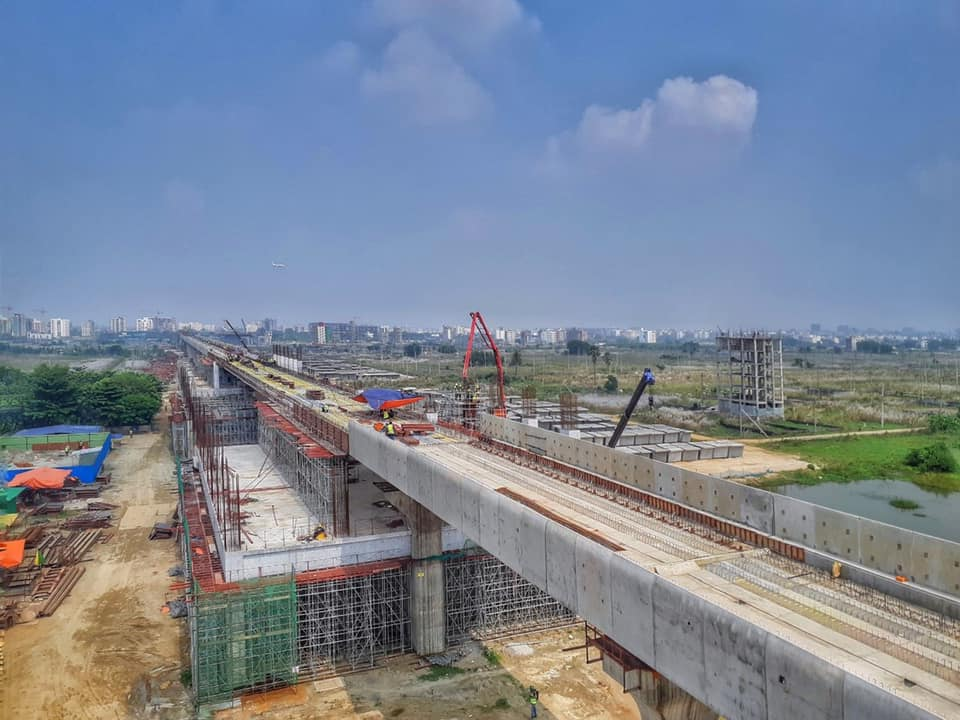 Work progress of Station-2 at Uttara